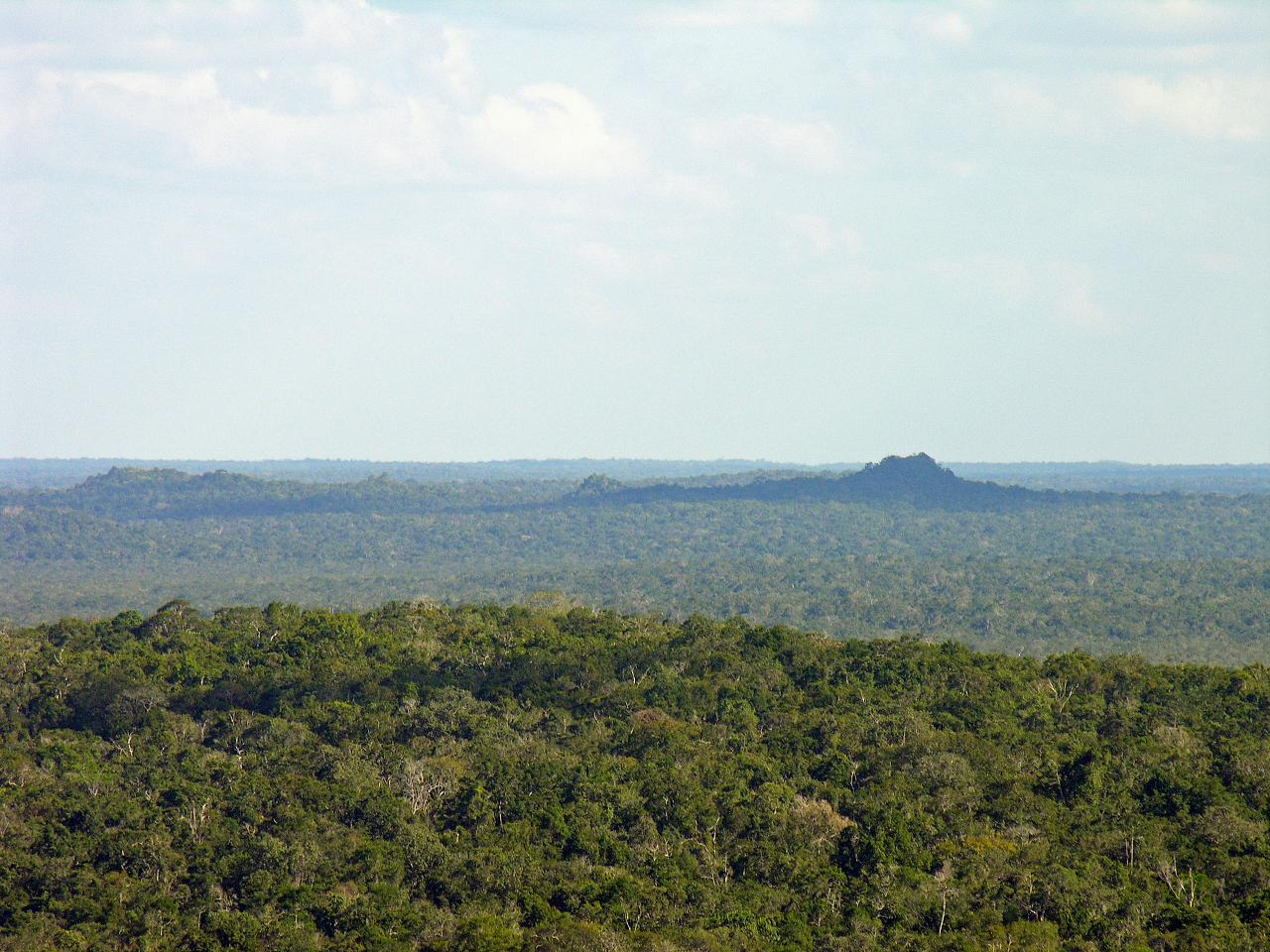 After climbing to the top the view was great, the site in the distance is Nakbe, another site not yet restored.